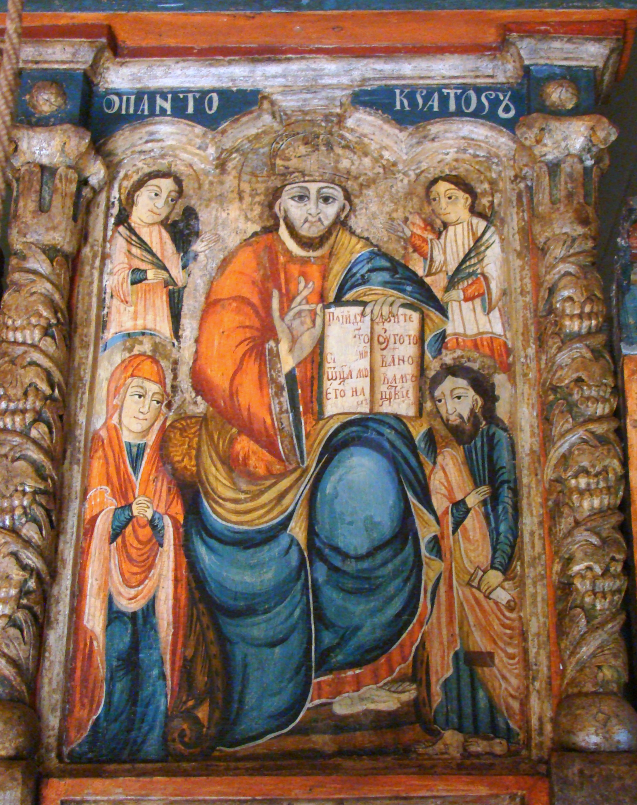 Wooden church in Cormaia monastery, Bistrița-Năsăud county, Romania